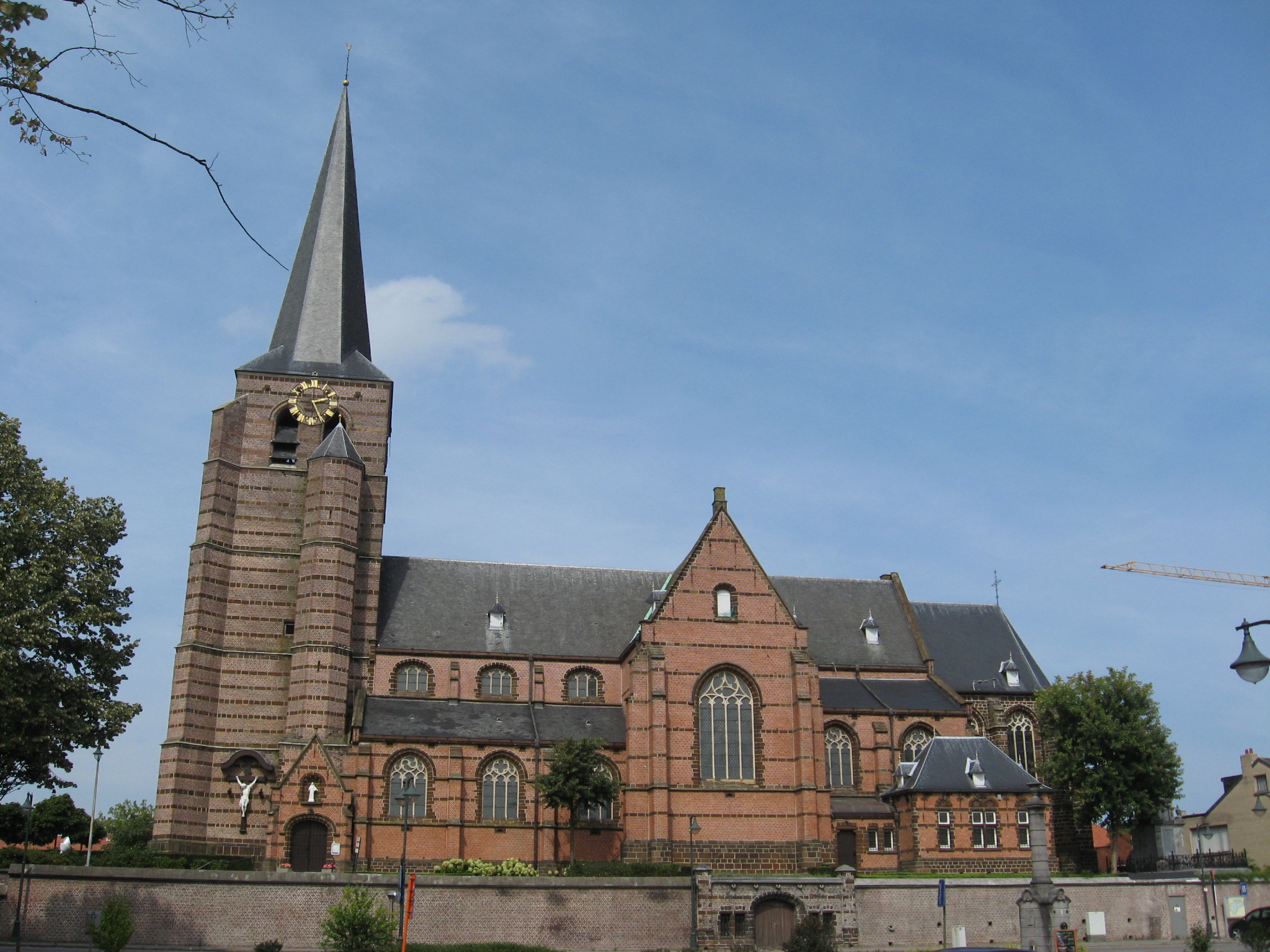 Church of Saint Mary in Veerle, Laakdal, Antwerp, Belgium